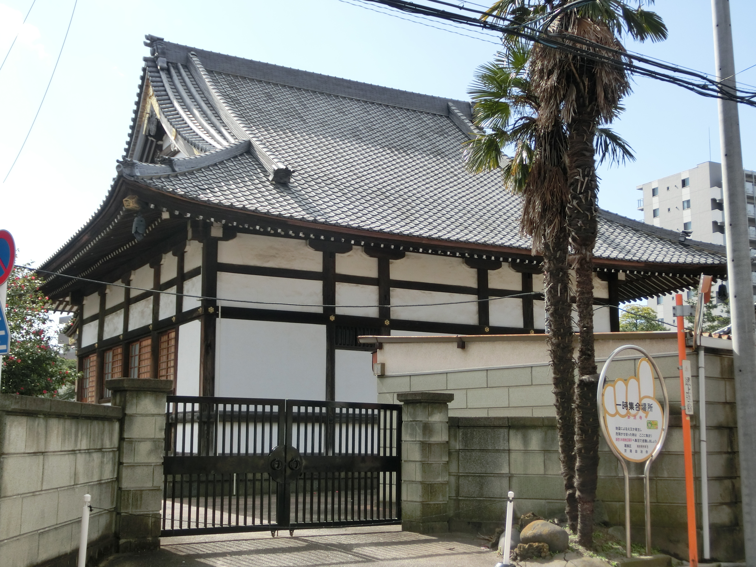 Myogen-ji (Katsushika)